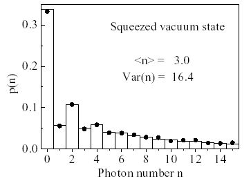 measured photon number distribution of squeezed vacuum